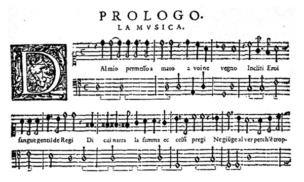 Two lines of music from the prologue of Claudio Monteverdi's 1609 opera L'Orfeo; published in Venice in 1609 by Ricciardo Amadino